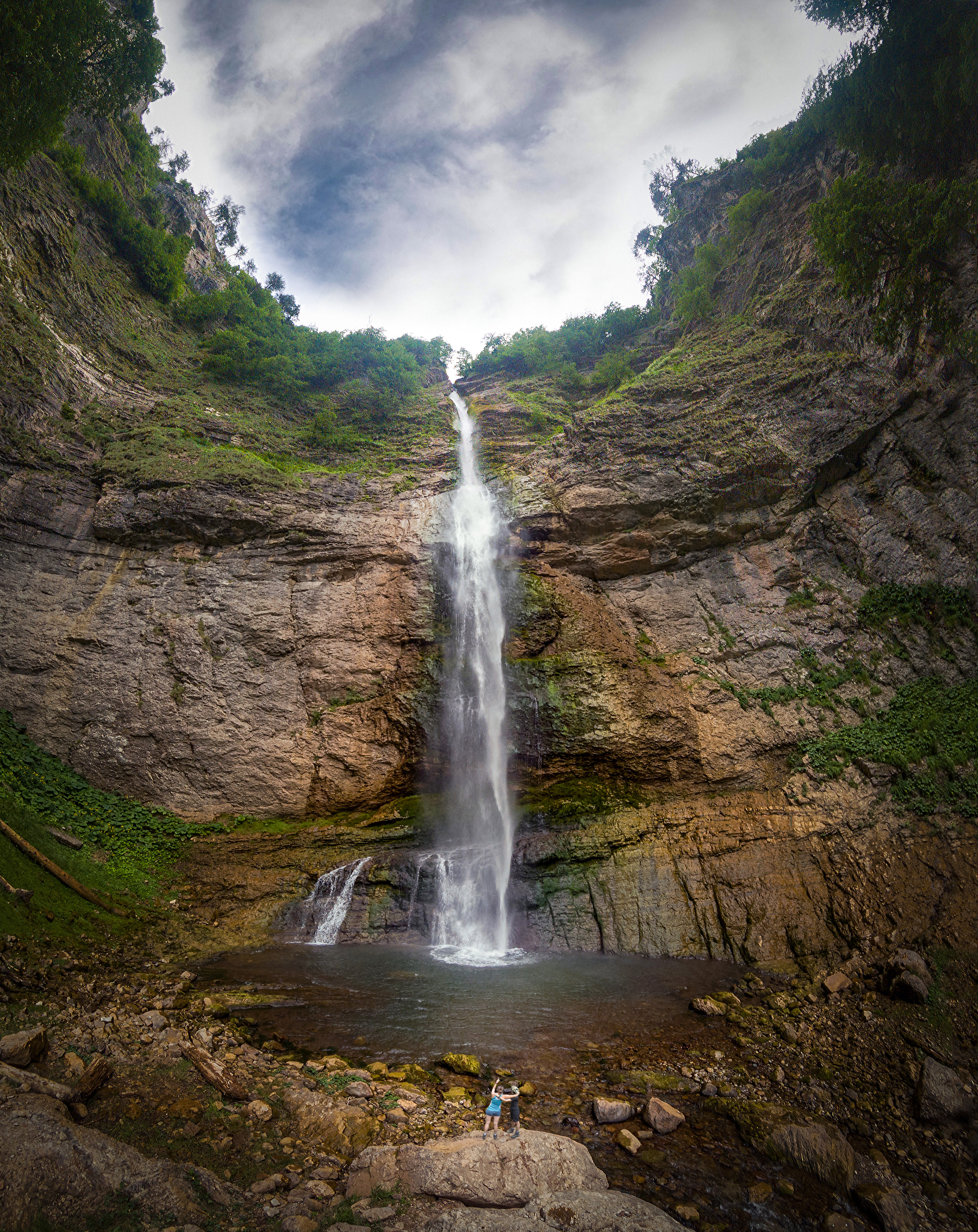 C:\DCIM\111GOPRO\GOPR9108.GPR